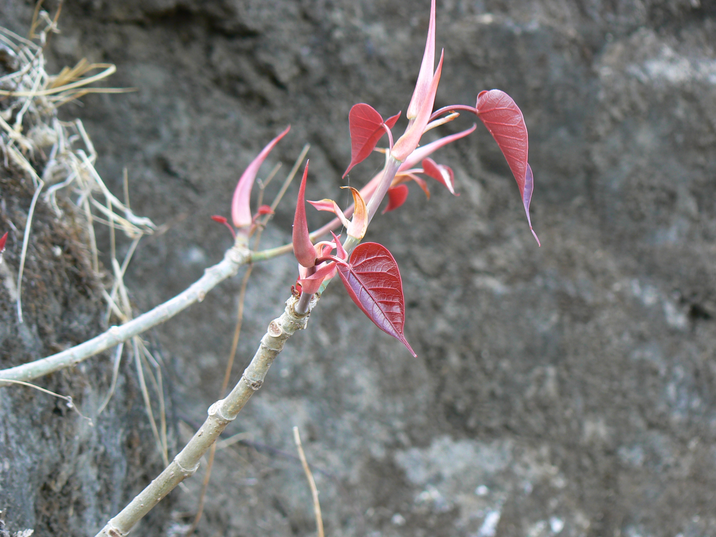 Moraceae (mulberry family) » Ficus religiosa L. FY-kus or FIK-us -- from Latin for Ficus carica, an edible fig ... Dave's Botanary re-lij-ee-OH-suh -- sacred ... Dave's Botanary commonly known as: holy fig tree, peepul, sacred fig tree • Assamese: আঁহত ahot, পিপ্পল pippol • Bengali: অশ্বত্থ asbattha • Gujarati: અશ્વત્થ asvattha, પીપળો piplo • Hindi: अस्वत्थ aswattha, पीपल pipal • Kannada: ಅರಳಿಮರ aralimara, ಅಶ್ವತ್ಥಮರ asvatthamara • Kashmiri: पिपल् pipal • Konkani: अश्वता रूकू ashvata ruku, पिंपळ pimpal • Malayalam: അരയാൽ arayal, പിപ്പലം pippalam • Manipuri: সনা খোঙনাঙ sana khongnang • Marathi: अश्वत्थ ashwattha, पिंपळ pimpala • Mizo: hmâwng • Nepali: पिपल pipal • Oriya: ଓସ୍ତ osta • Pali: अस्सत्थ assattha • Punjabi: ਪਿੱਪਲ pippal • Sanskrit: अश्वत्थ ashvattha, पिप्पल pippala • Tamil: அரசமரம் araca-maram, பிப்பலம் pippalam • Telugu: పిప్పలము pippalamu, రాగిచెట్టు ragichettu • Tibetan: a sba dtha • Tulu: ಅತ್ತಸಮರ attasamara • Urdu: پيپل pipal Native to: India, Nepal, Bangladesh, Myanmar, Pakistan, Sri Lanka, s-w China, Indochina; also cultivated References: Flowers of India • Wikipedia • ENVIS - FRLHT